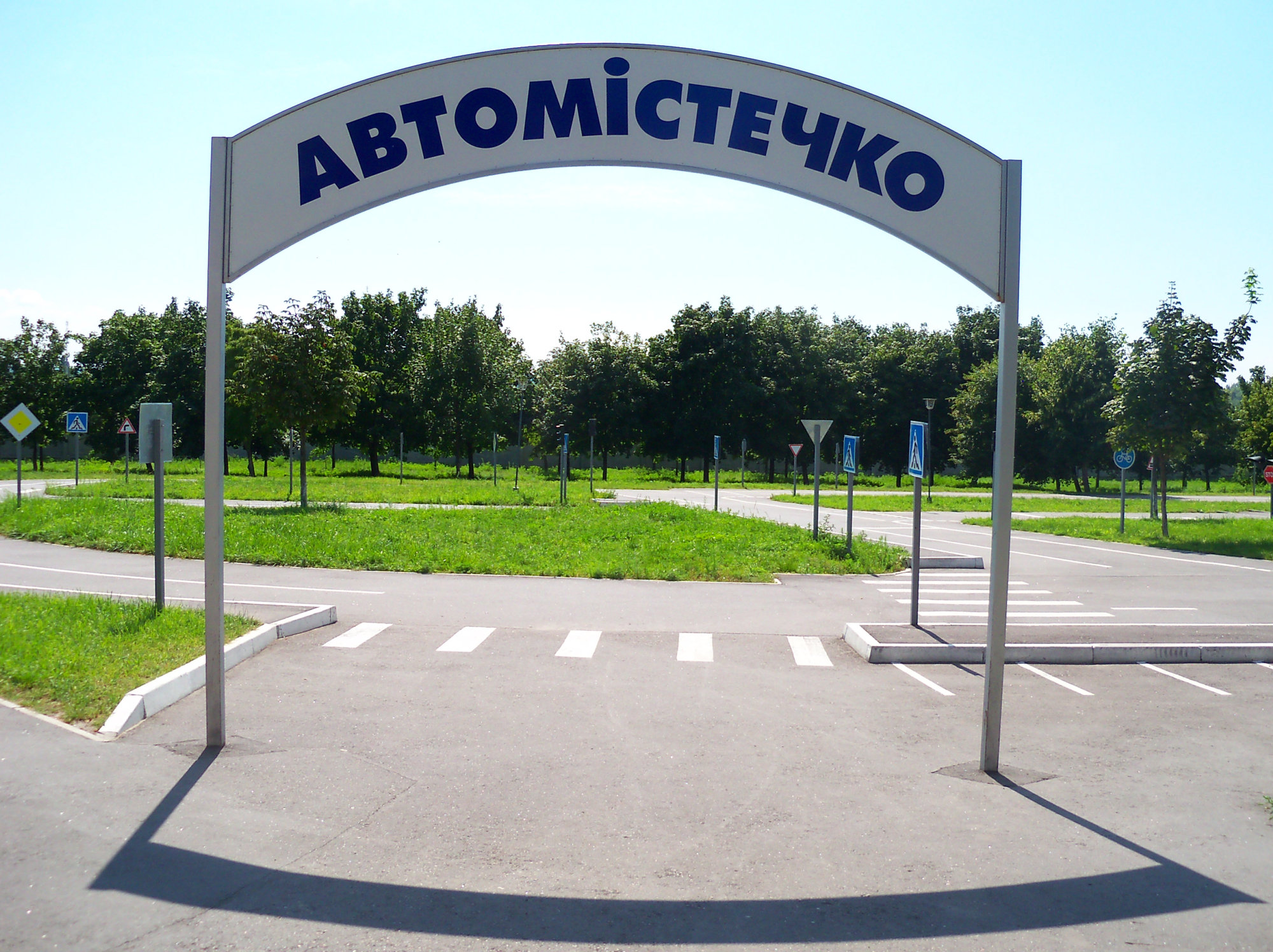 Kremenchuk Park of Peace